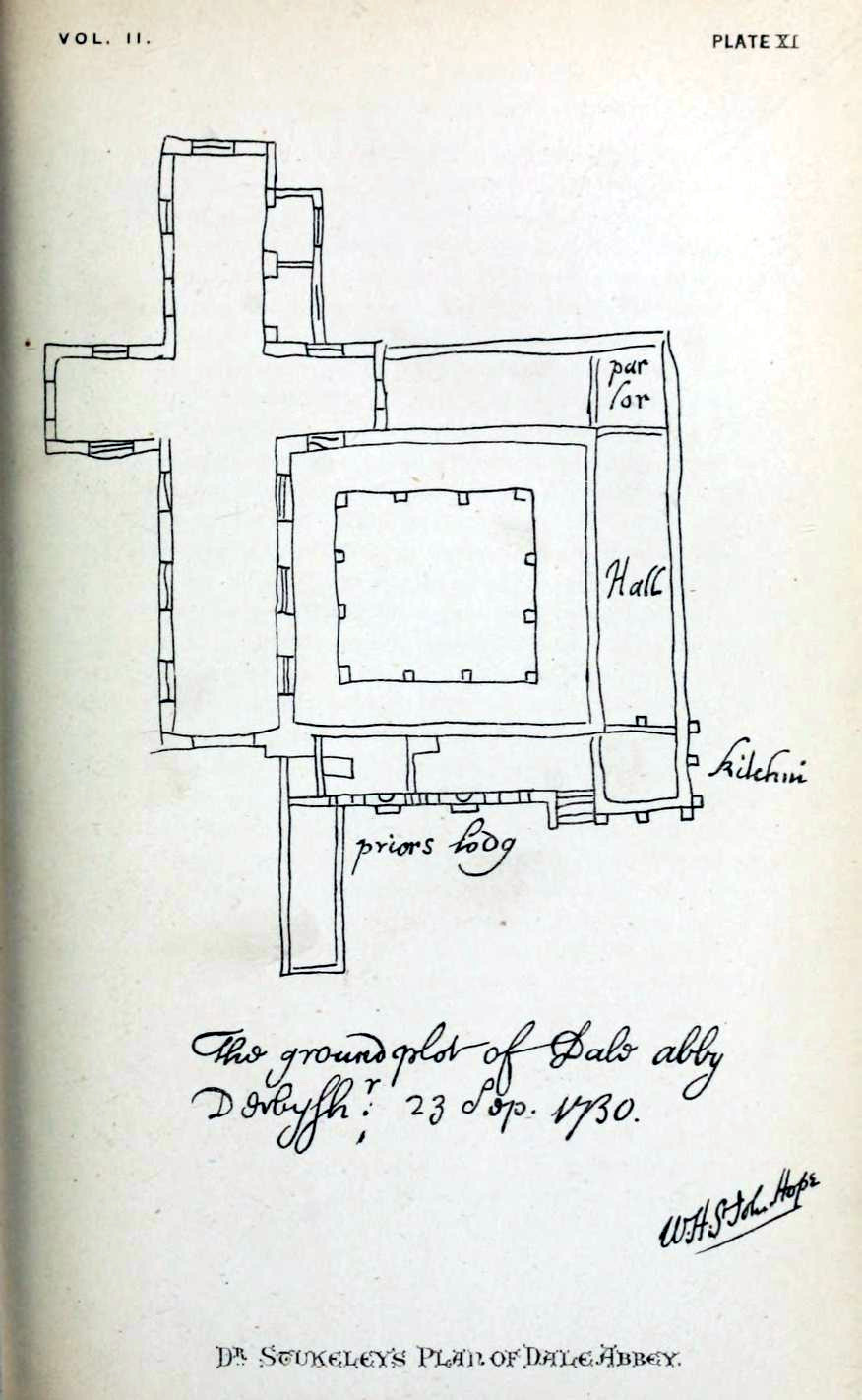 Sketch Plan made in 1730 during a visit to Dale Abbey, Derbyshire, by Dr William Stukeley (7 November 1687 – 3 March 1765). Almost two centuries after its dissolution the shape of the abbey was still easily discernible.